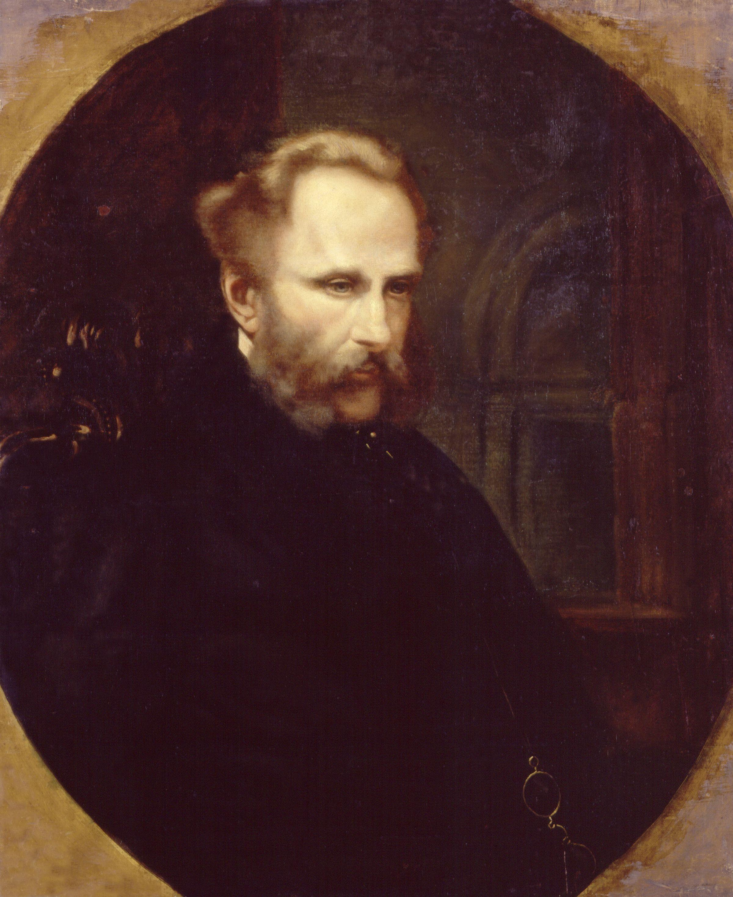 Alexander William Kinglake (August 5, 1809 – January 2, 1891) was an English travel writer and historian., Painting by Harriet M. Haviland (floruit 1863-1865). All images in this batch have a known author, but have manually examined for strong evidence that the author was dead before 1939, such as approximate death dates, birth dates, floruit dates, and publication dates.